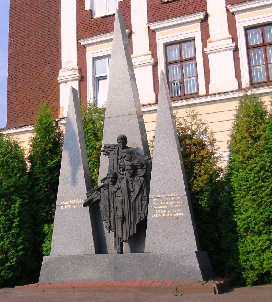 Horodok. A monument to the participants of the Ukrainian military organization to Yury Berezinsky, Vladimir Starik, Vasyl Bilas and Dmitry Danylyshyn, who were killed and executed in 1932.